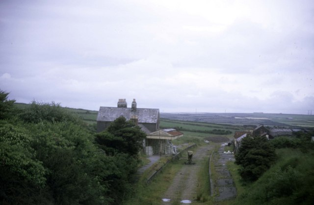 Camelford railway station on the North Cornwall Railway looking towards Launceston. The station building is a private dwelling and a cycle museum.